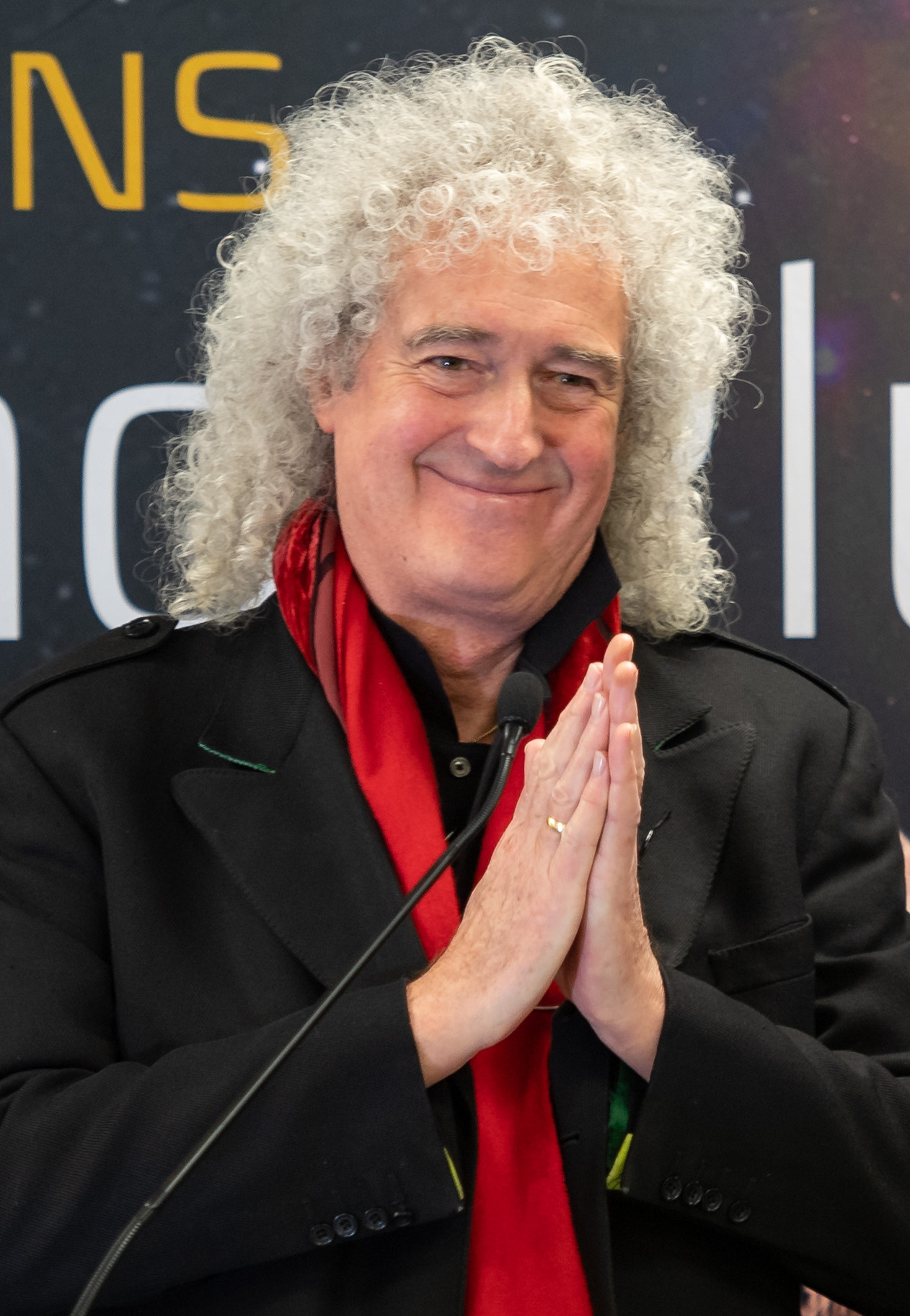 Brian May, lead guitarist of the rock band Queen and astrophysicist discusses the upcoming New Horizons flyby of the Kuiper Belt object Ultima Thule, Monday, Dec. 31, 2018 at Johns Hopkins University Applied Physics Laboratory (APL) in Laurel, Maryland.